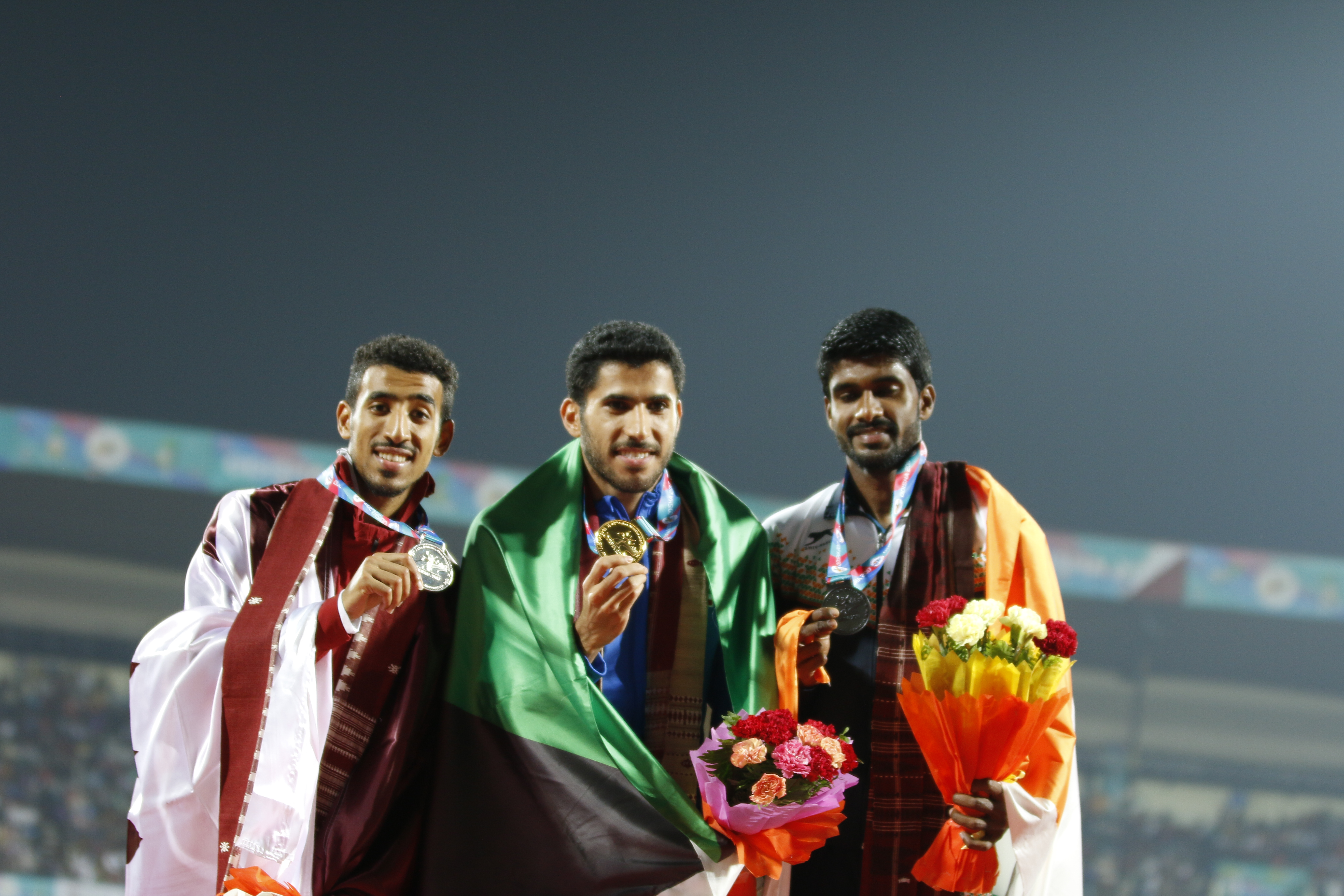 Athletes during 22nd Asian Athletics Championships in Bhubaneswar.